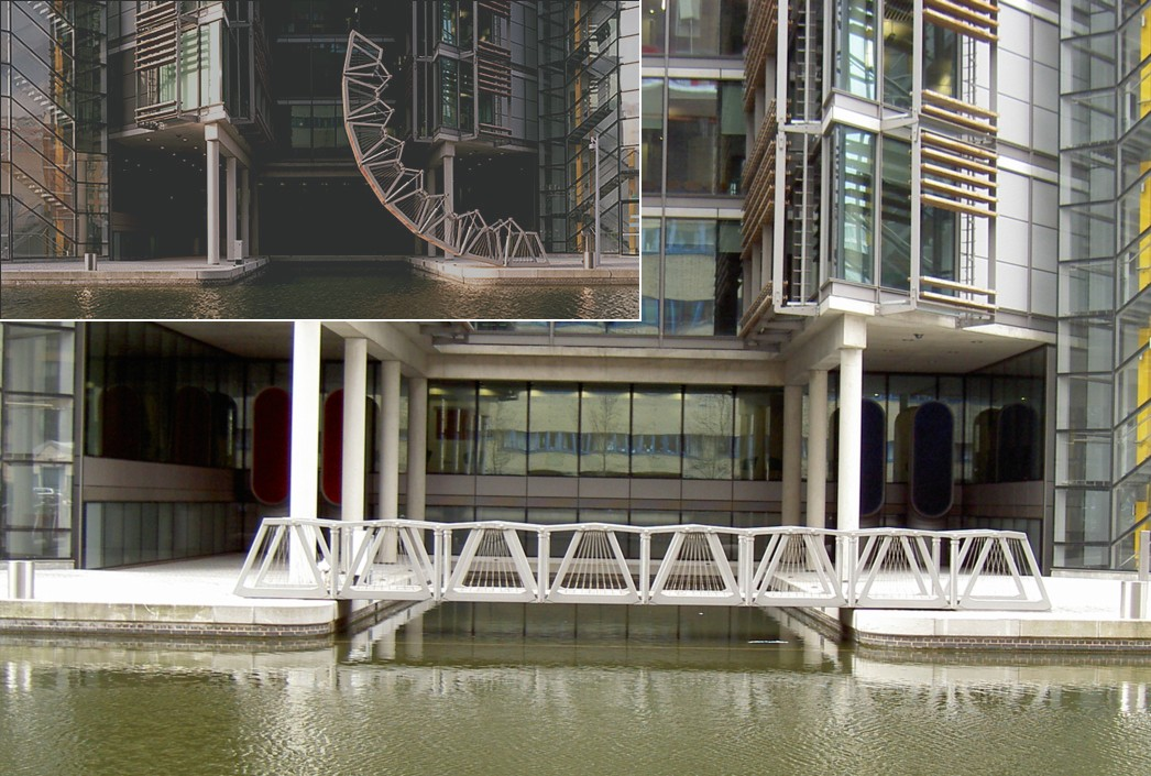 Rolling Bridge, London. Inset (top) shows up position